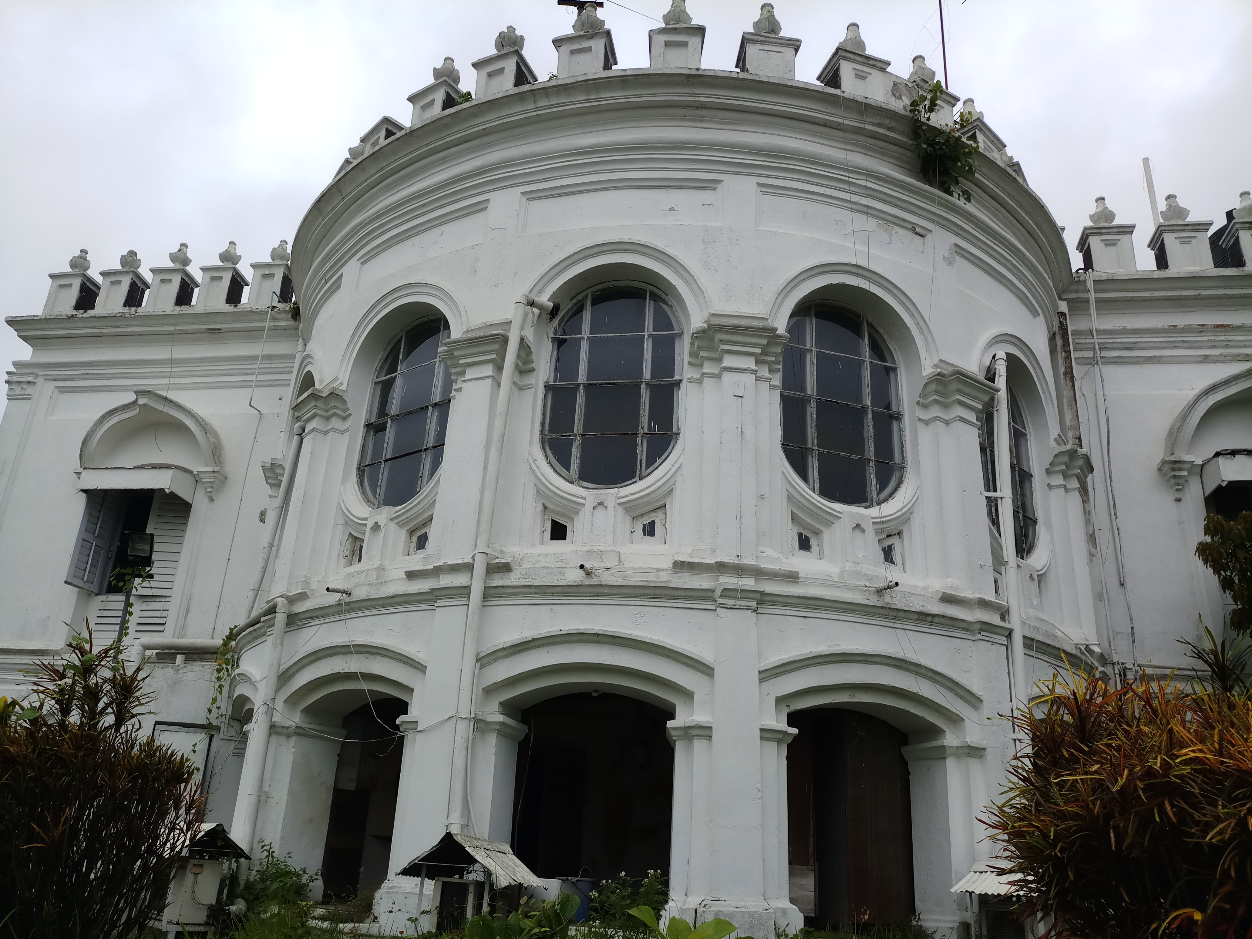 It is said that the room adjacent to this gallery was where the great poet Rabindranath Tagore stayed as the royal guest of the king of Tripura.